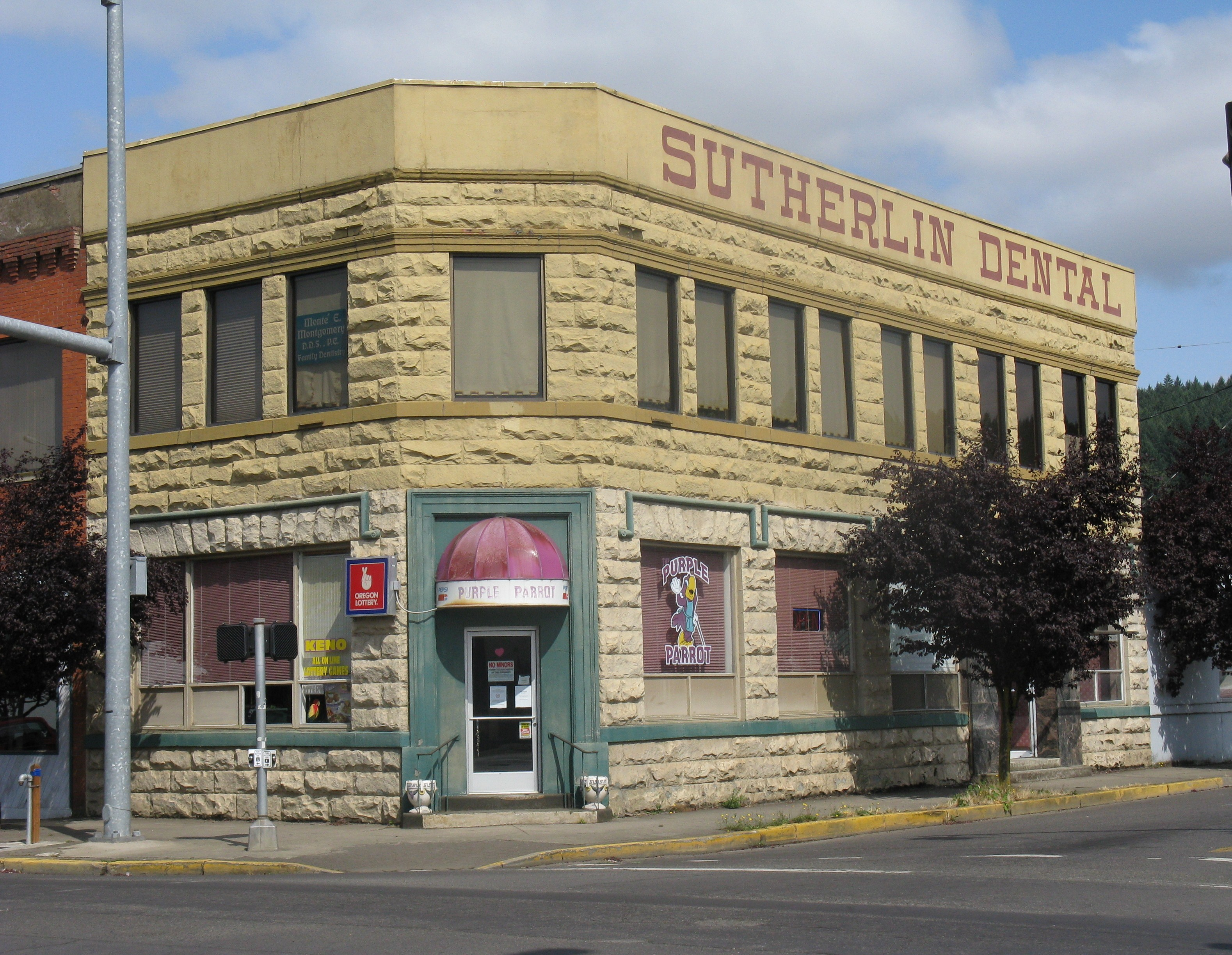 The historic Sutherlin Bank Building (built 1910), located at 101 West Central Avenue in Sutherlin, Oregon, United States, is listed on the US National Register of Historic Places (NRHP). NRHP reference number 84002987